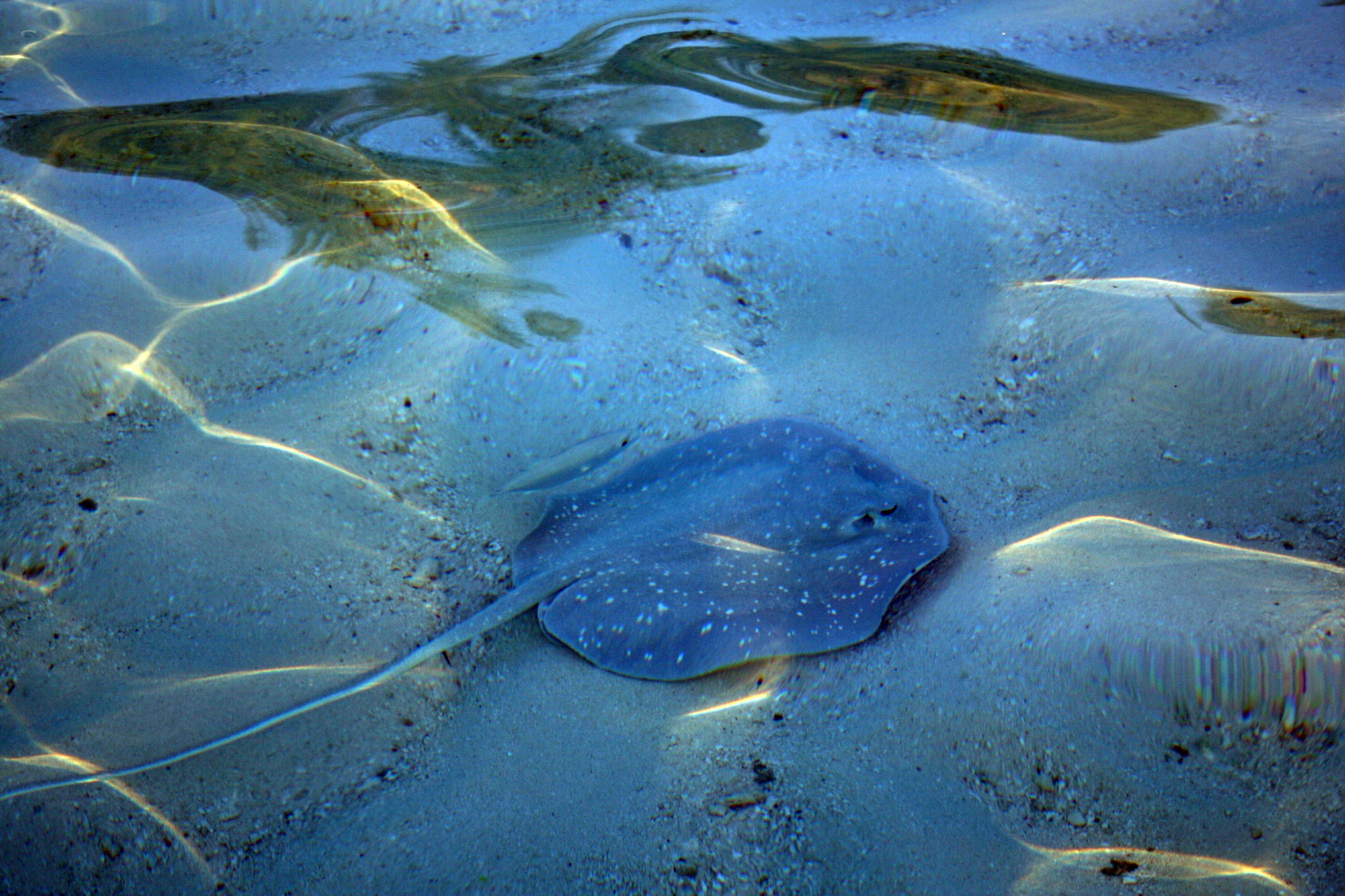 A Bungalow on Bathala.